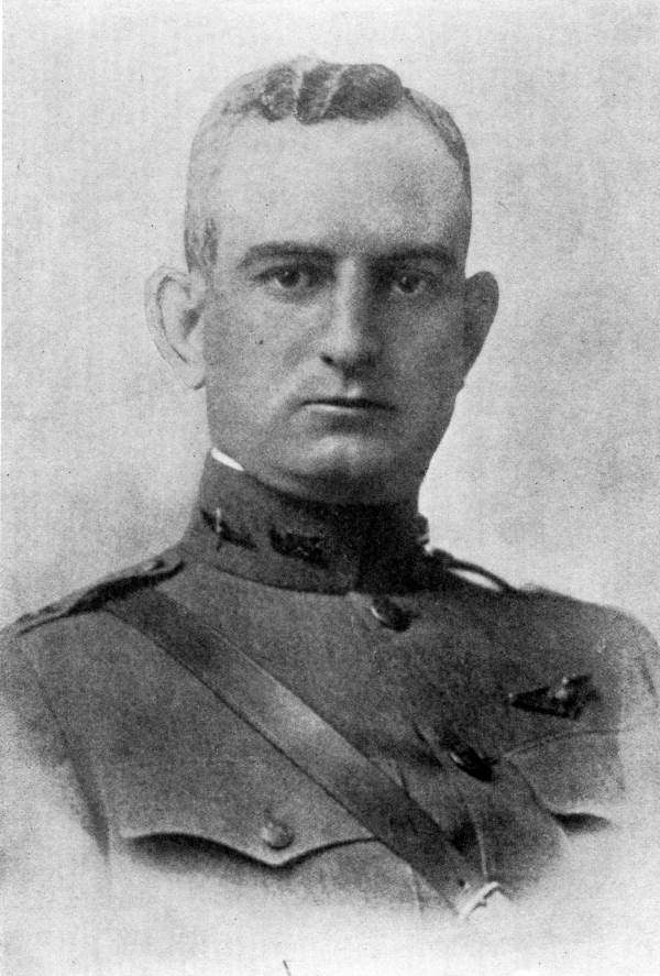 Portrait of Captain Dale Mabry (1891-1922)